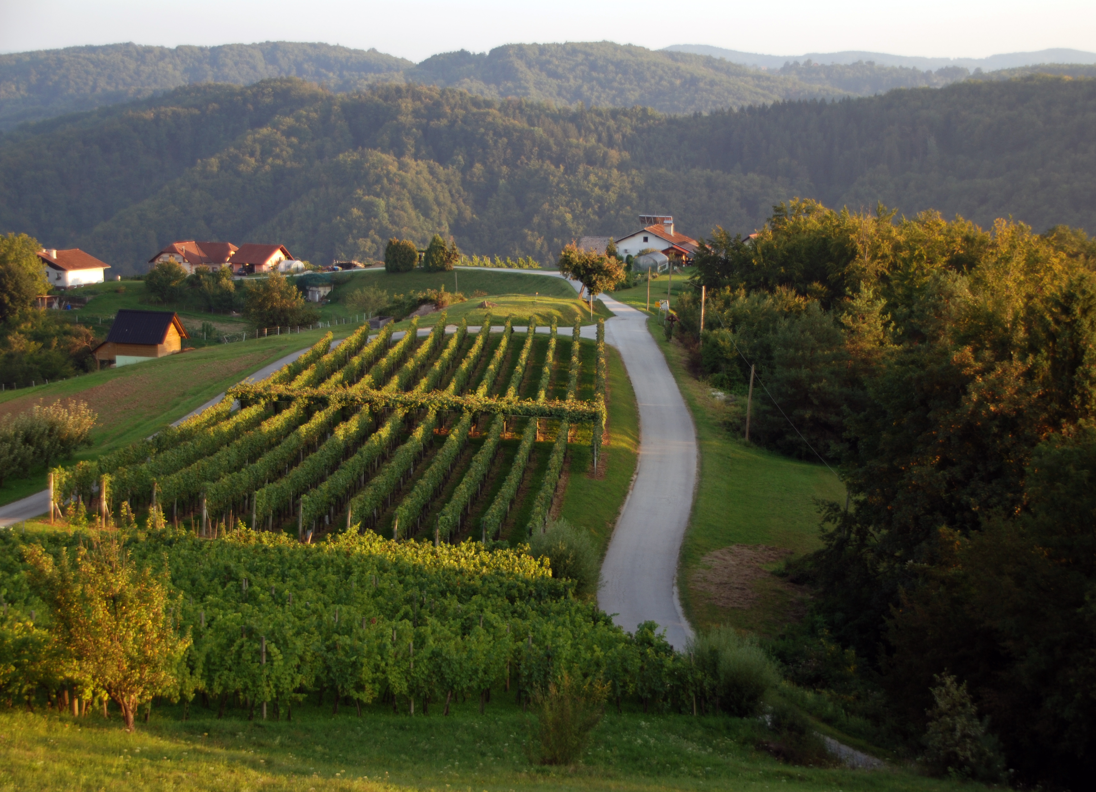 Trščina, a village in Lower Carniola, southeastern Slovenia. View of the lower part of the village from above.